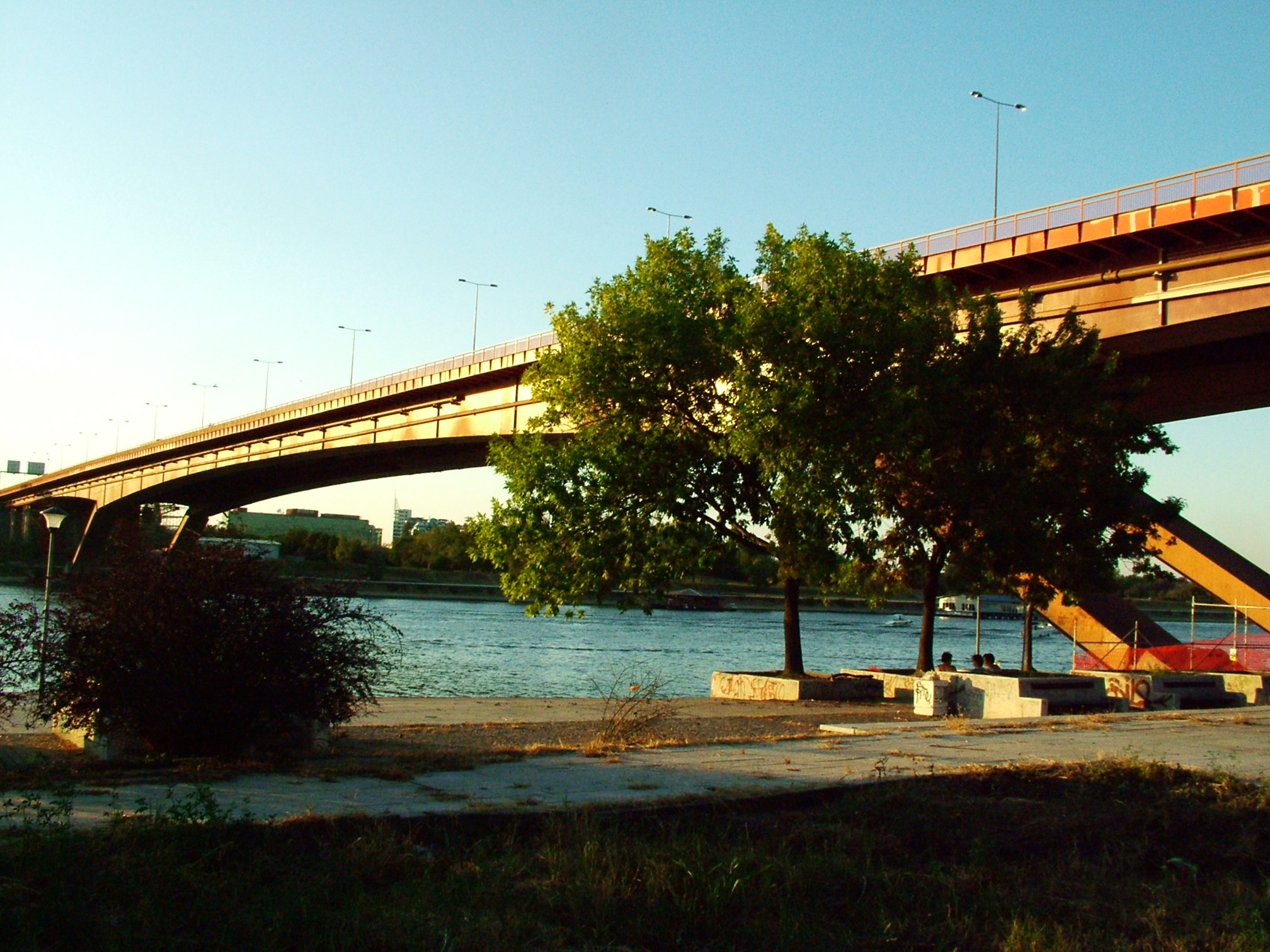 Belgrade's Sava Bridge, highway line. The bridge has been renovated in 2011.